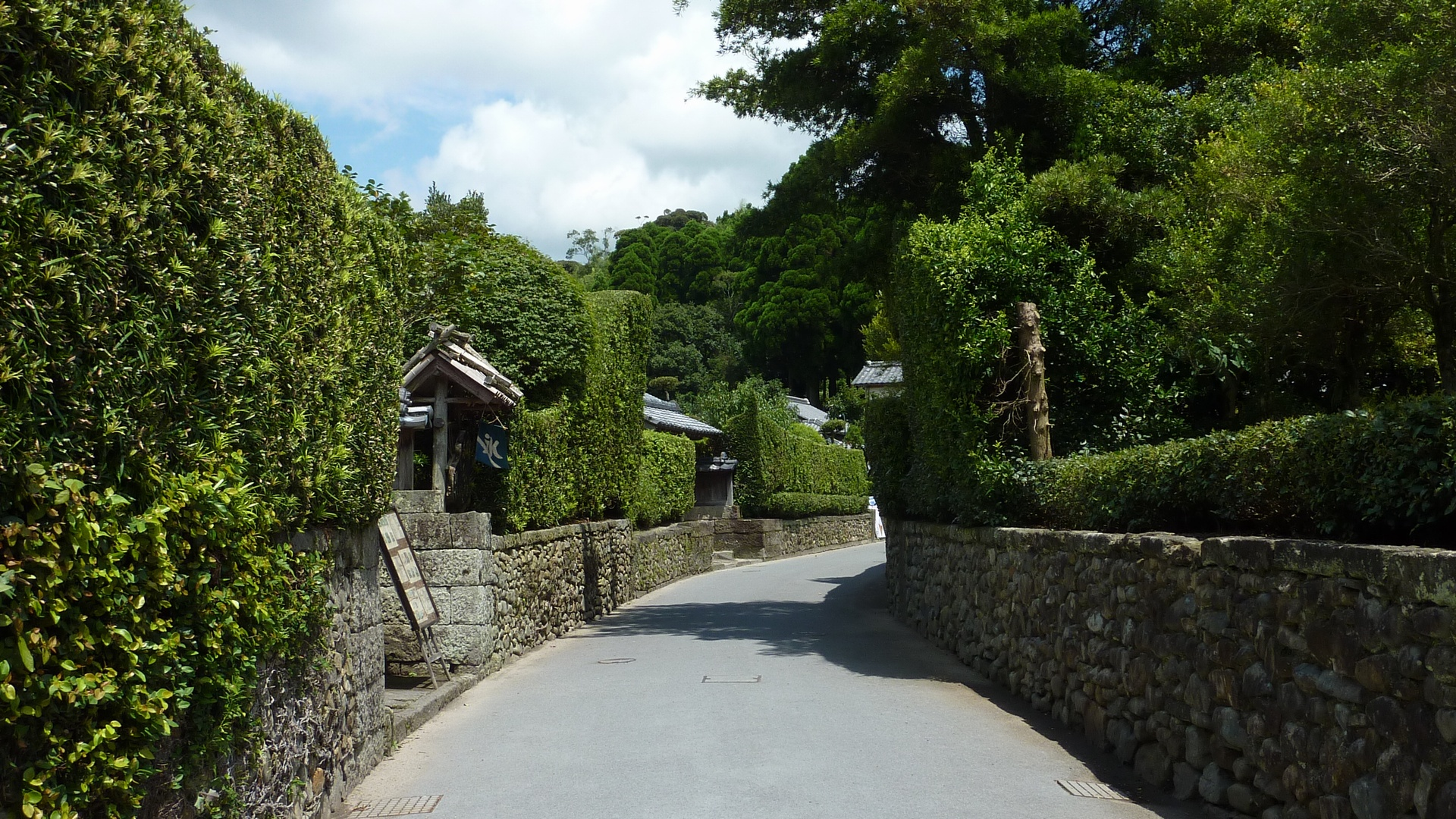 Chiran Fumoto (Former Samurai District - Chiran, Minamikyushu City, Kagoshima, Japan)